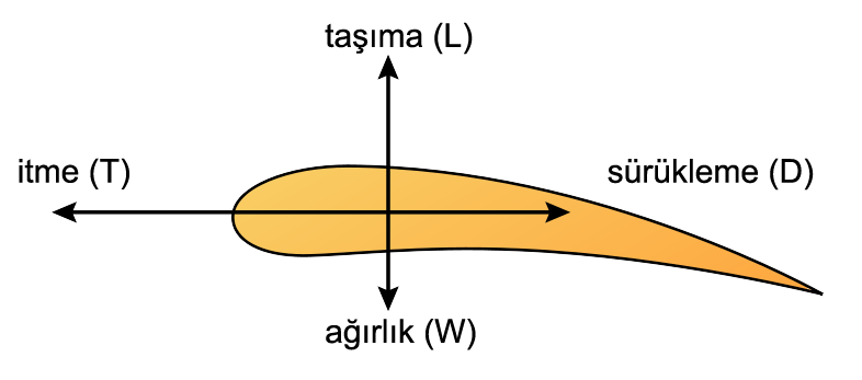 Aerofoil and aerodynamic forces: thrust, lift, drag and weight